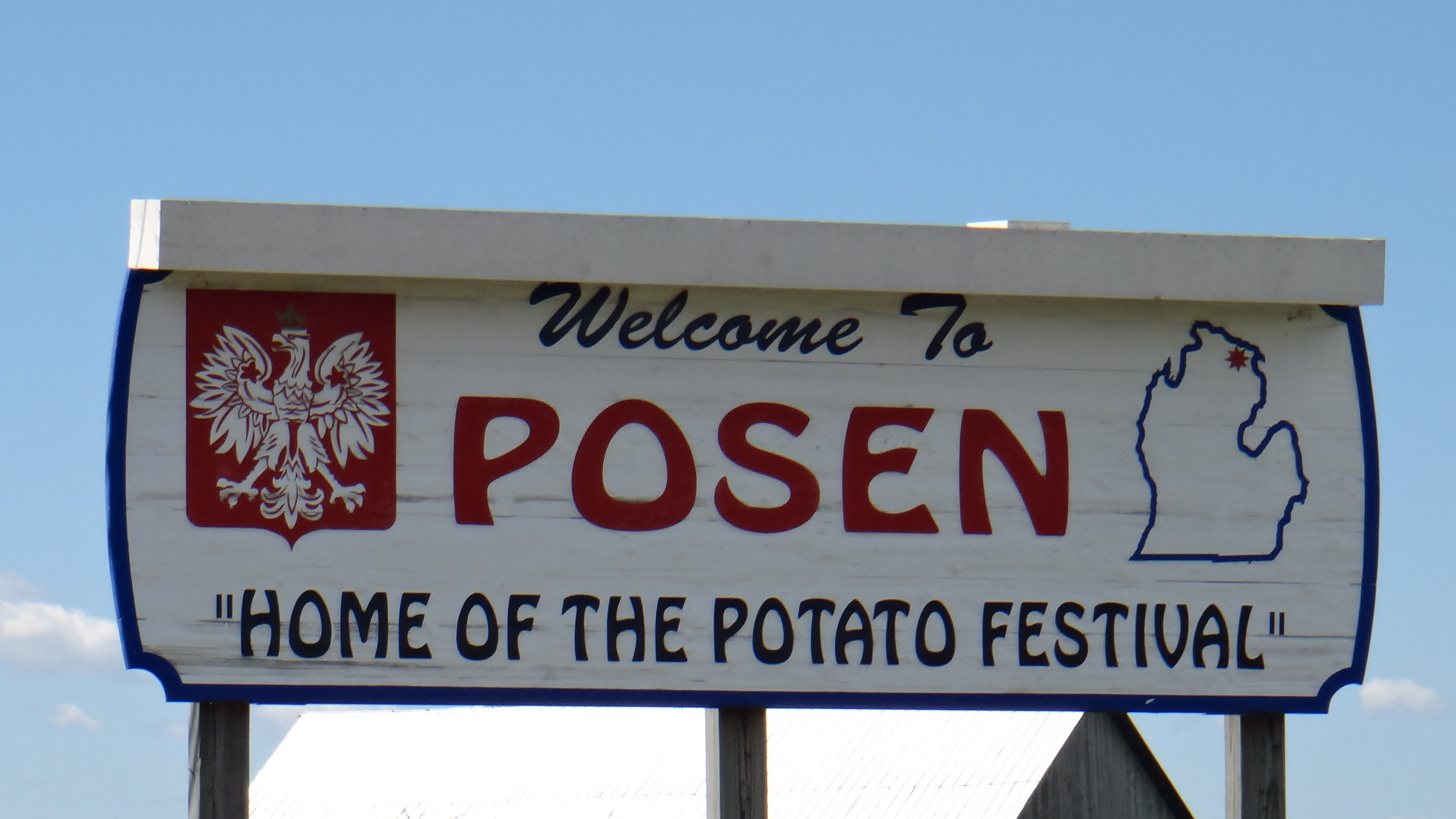 This is a photograph that I took of the welcome sign for the Village of Posen in Michigan.